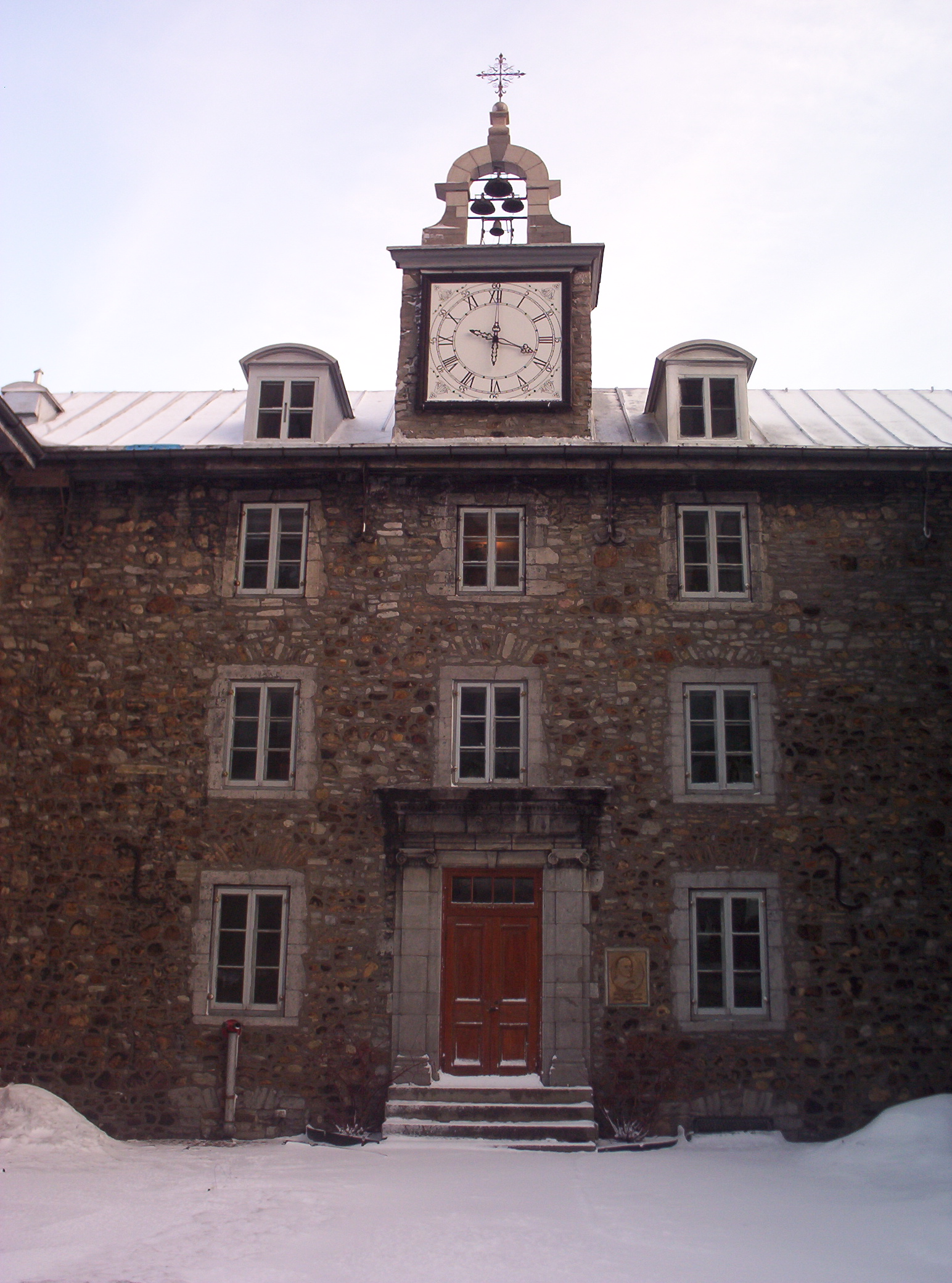 Summary: The old Sulpicians seminary, which was built in 1684, is the oldest building of Montreal, Québec Author: Colocho Date: January 22nd, 2006